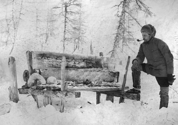 Russian ethnographer Victor Vasiliev at a suspended burial (arangas), Krasnoyarsk region, 1905